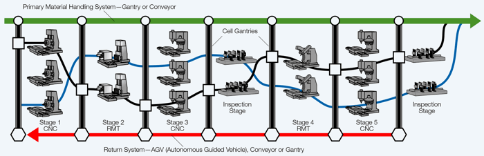 A reconfigurable manufacturing system (RMS) is one designed at the outset for rapid change in its structure, as well as its hardware and software components, in order to quickly adjust its production capacity and functionality within a part family in response to sudden market changes or intrinsic system change [1,2]. A schematic diagram of a RMS is shown below (Artist Rod Hill).